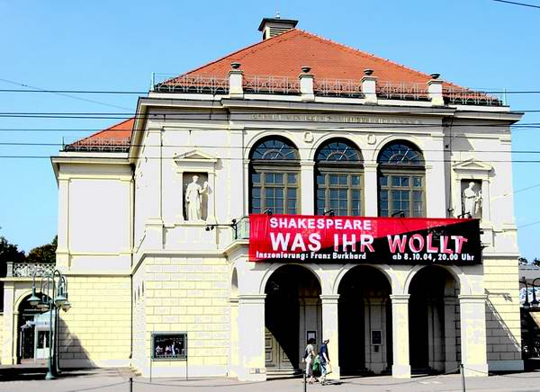 Stuttgart, Germany: Wilhelma-Theater The banner advertises a performance of Shakespeare's Twelfth Night or What you will (German: Was ihr wollt). Photographed by Enslin, 4 Sep 2004 Uploaded to de.wikipedia 18:37, 4 Sep 2004 by Benutzer:Enslin and marked GFDL.